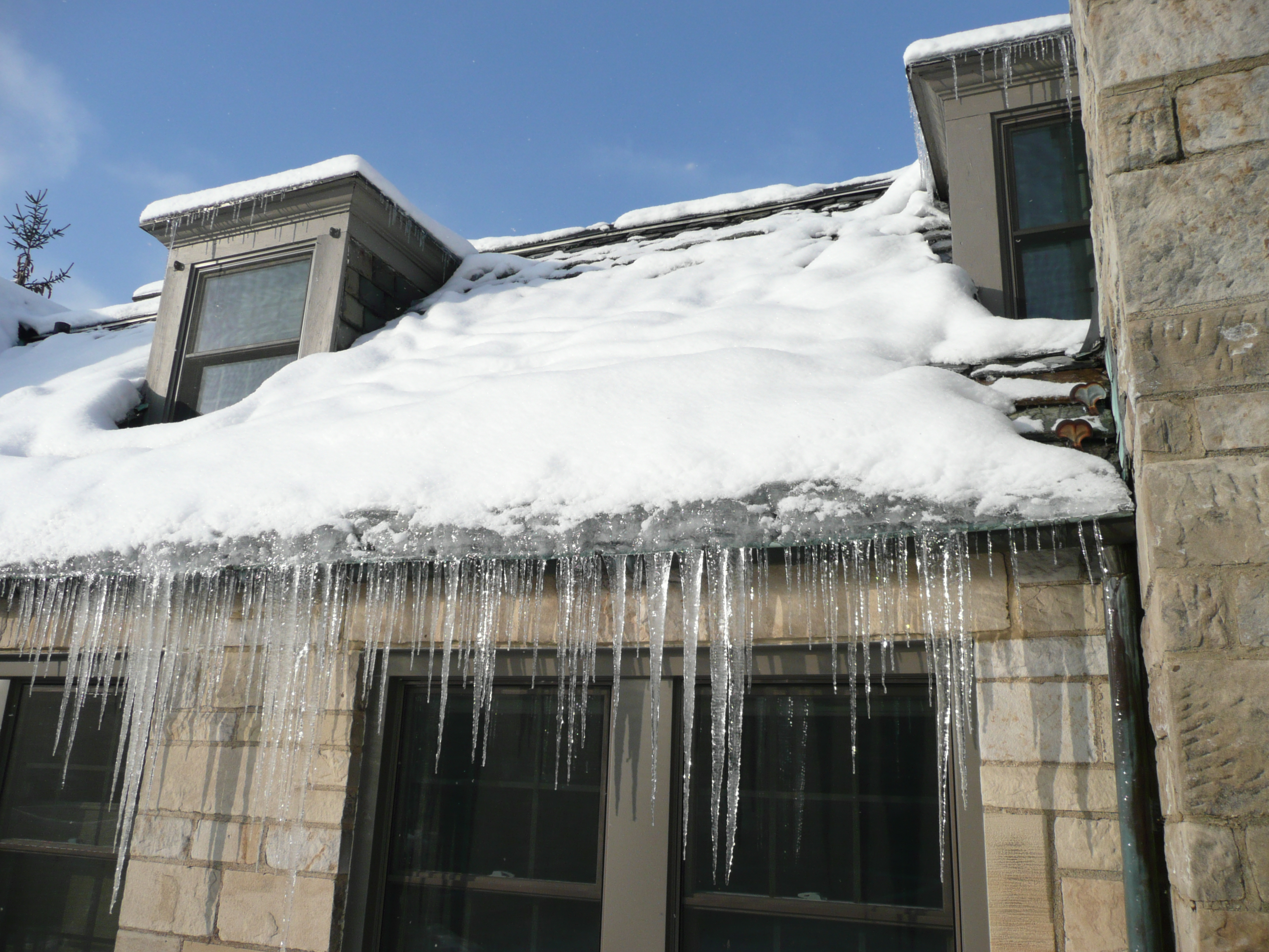 Ice dam forming on a slate roof near Cleveland, Ohio. Snow melt caused by attic heat loss and warming of slate roofing collects at roof eave to create ice dam.